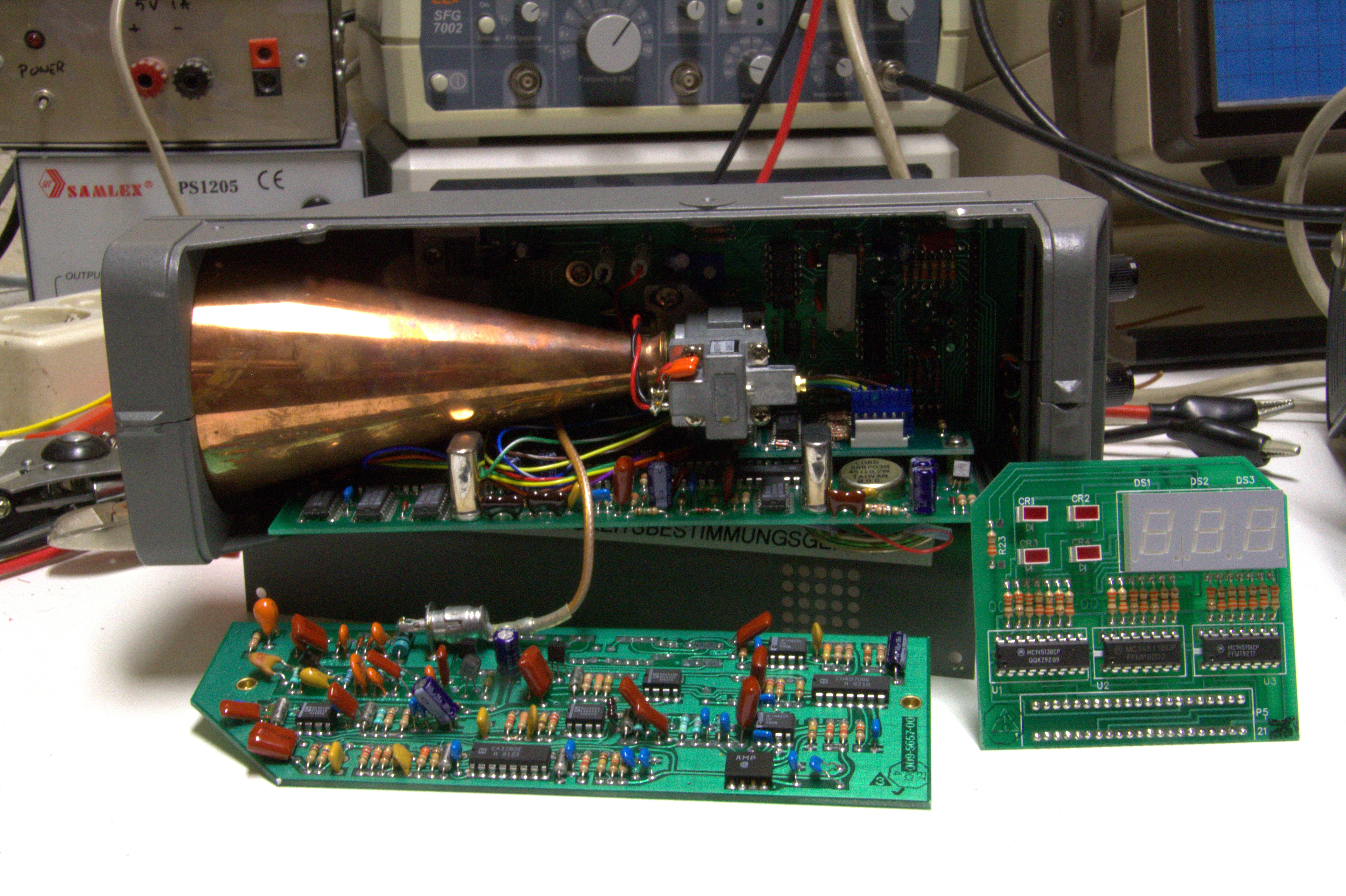 A disassembled radar speed gun, used by police to measure the speed of cars. The copper cone is the horn antenna that projects the beam of microwaves, and the small unit attached to its apex is the Gunn diode oscillator which generates the microwaves and also receives the reflected beam. The LCD display that displays the speed is mounted on the removed circuit board, right.